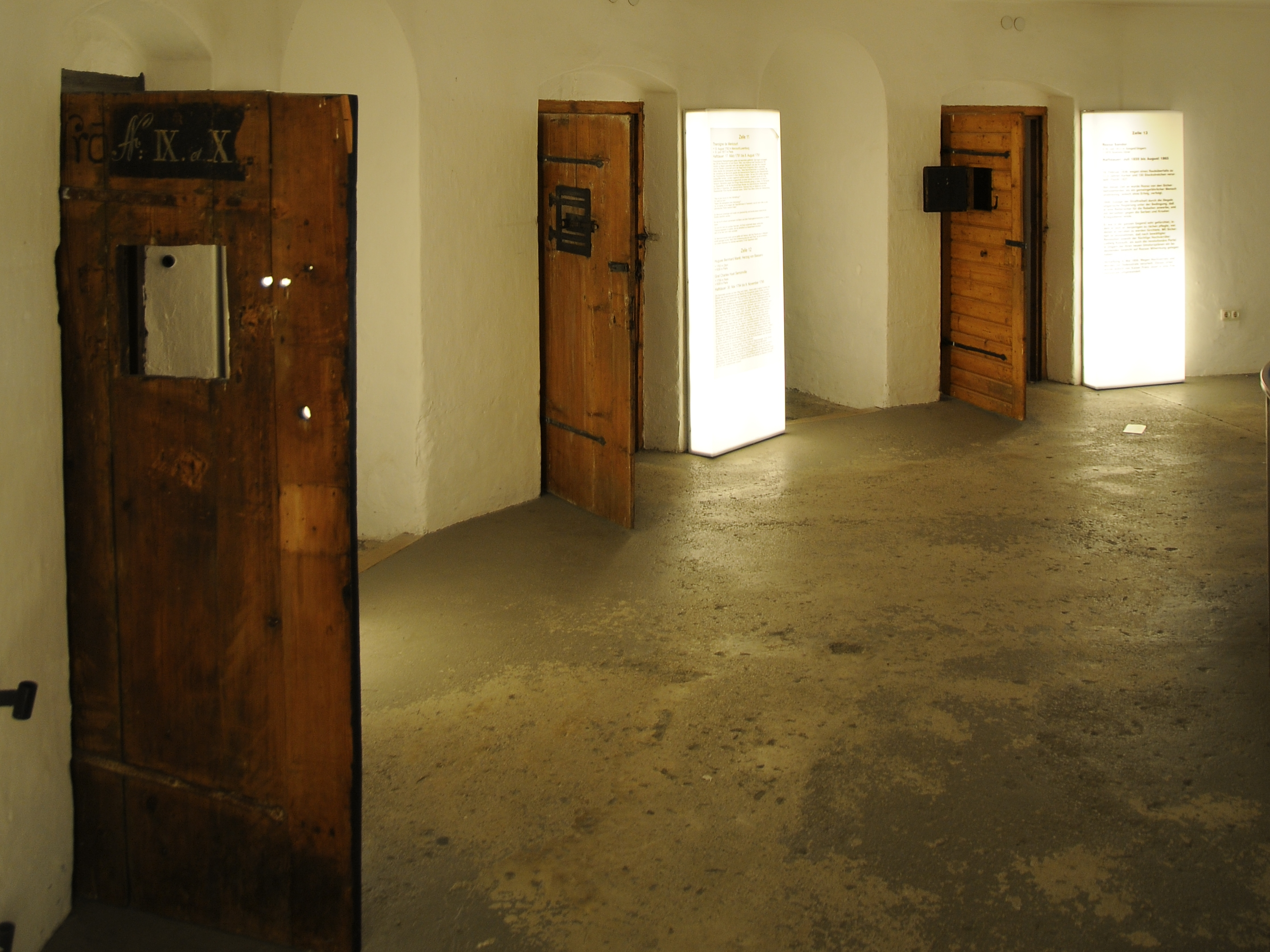 Kufstein Fortress, Tyrol, Austria